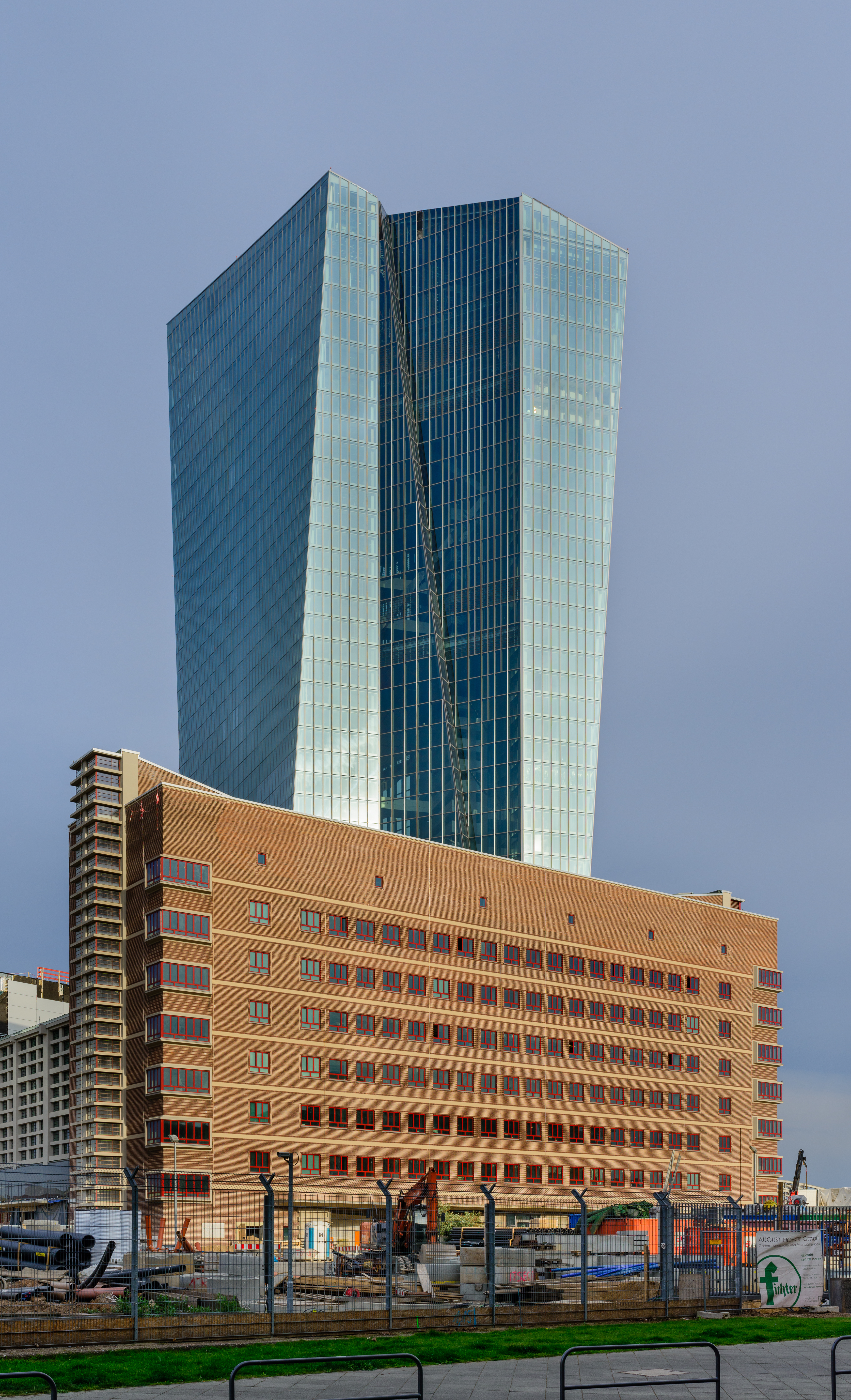 New building of the European Central Bank in Frankfurt Main, Germany.